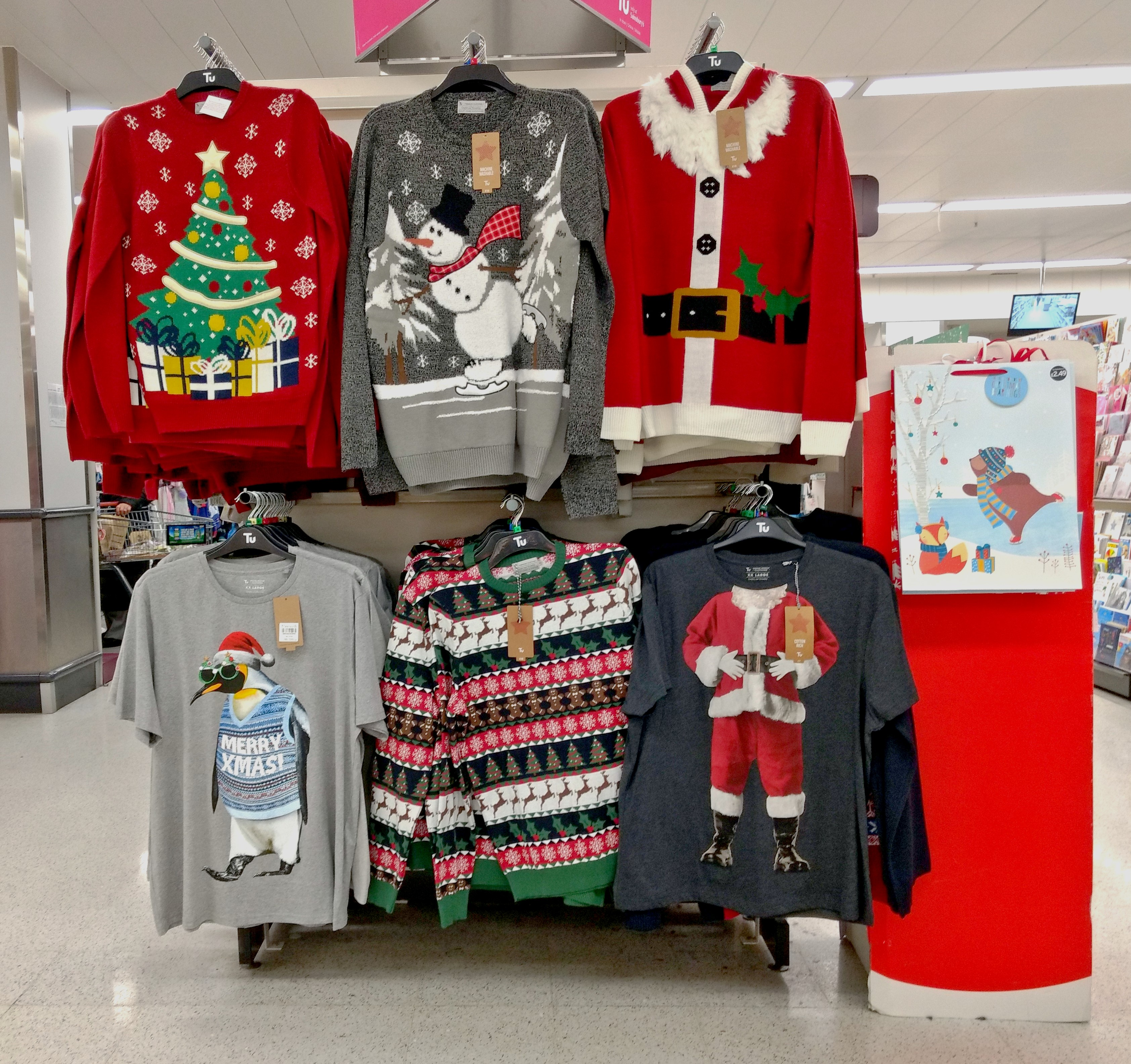 London